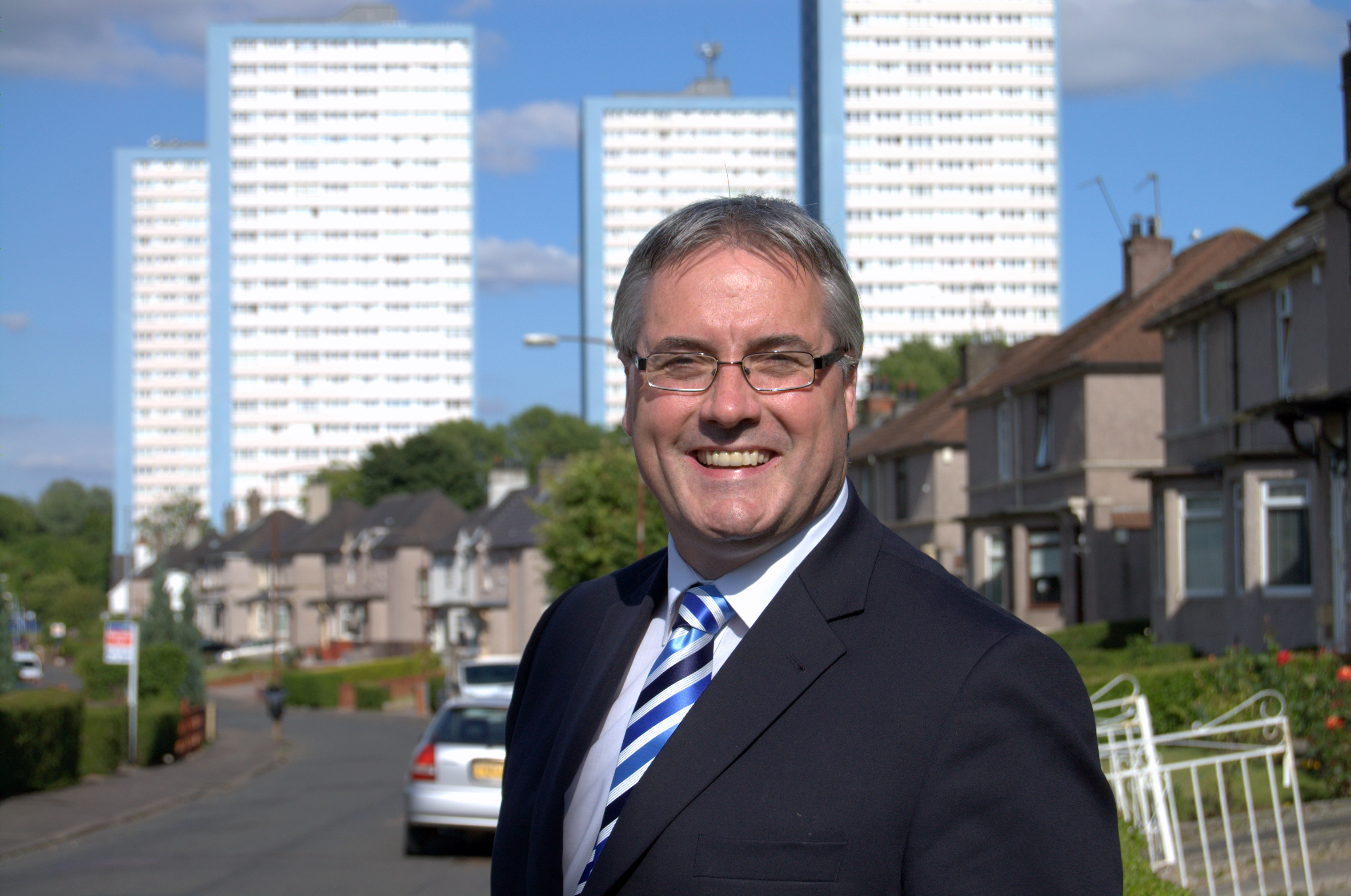 Frank McAveety MSP